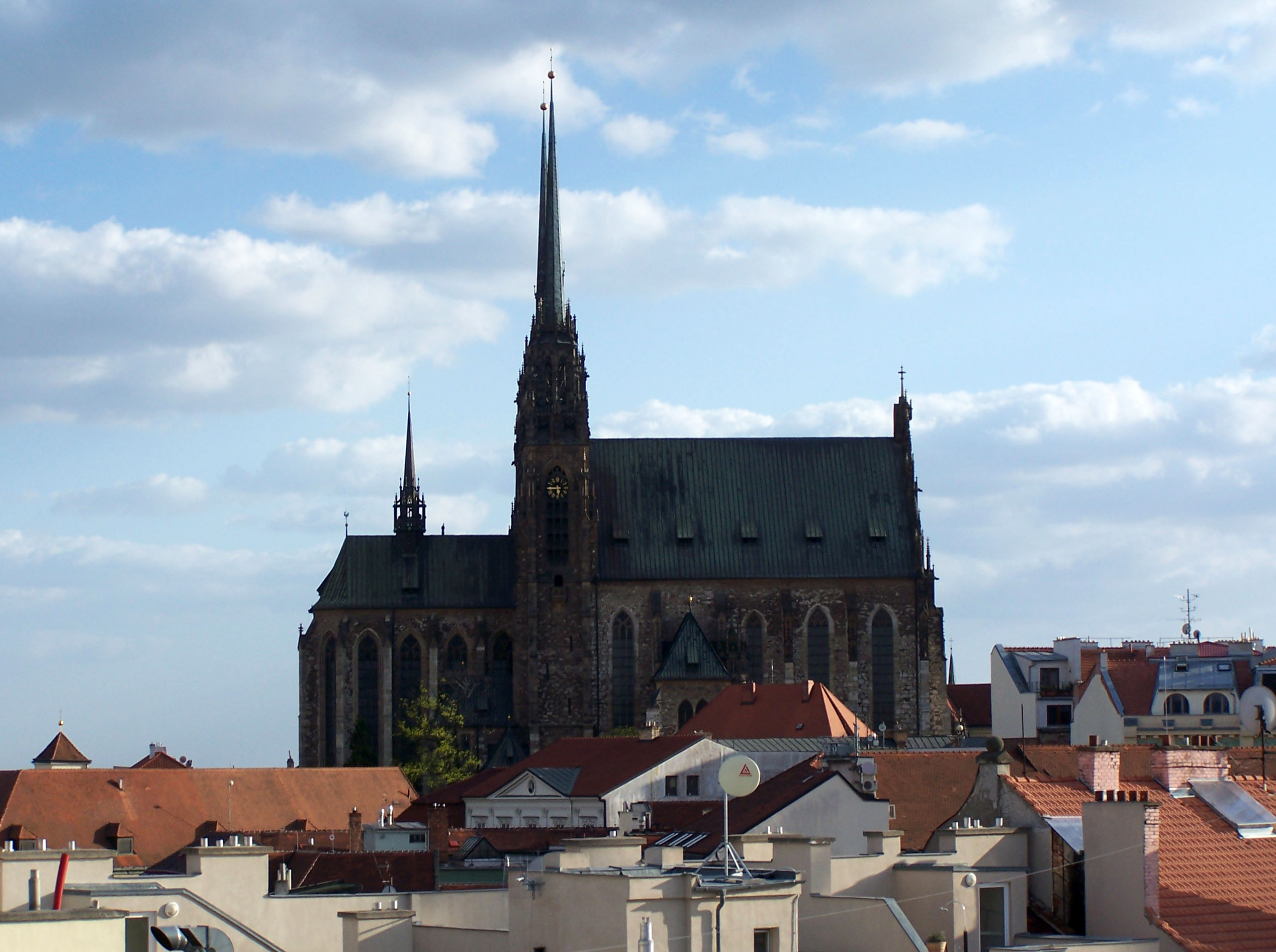 Cathedral of Saints Peter and Paul in Brno, Czech Republic